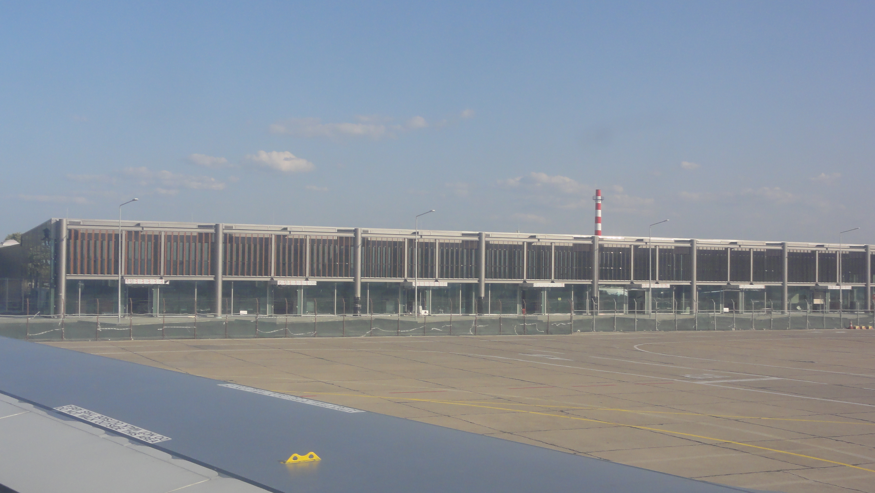 New departures terminal at the Bourgas Airport.